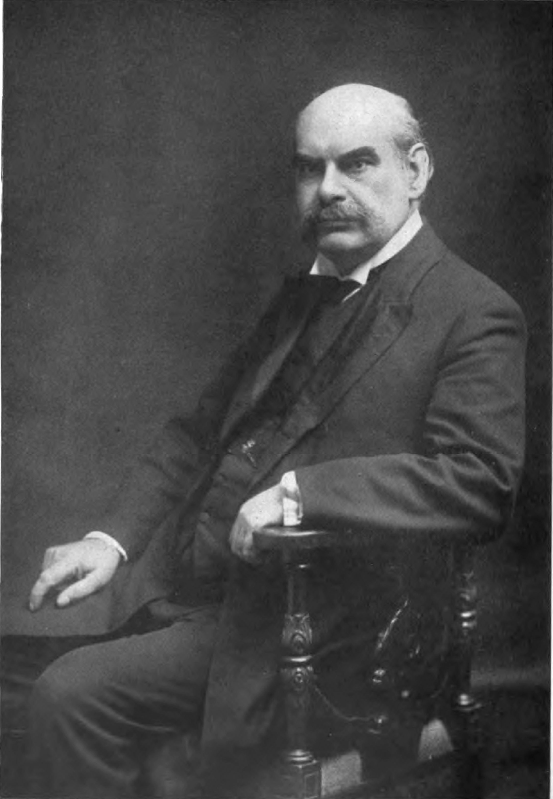 Frederick Corder (26 January 1852 – 21 August 1932) was an English composer and music teacher.